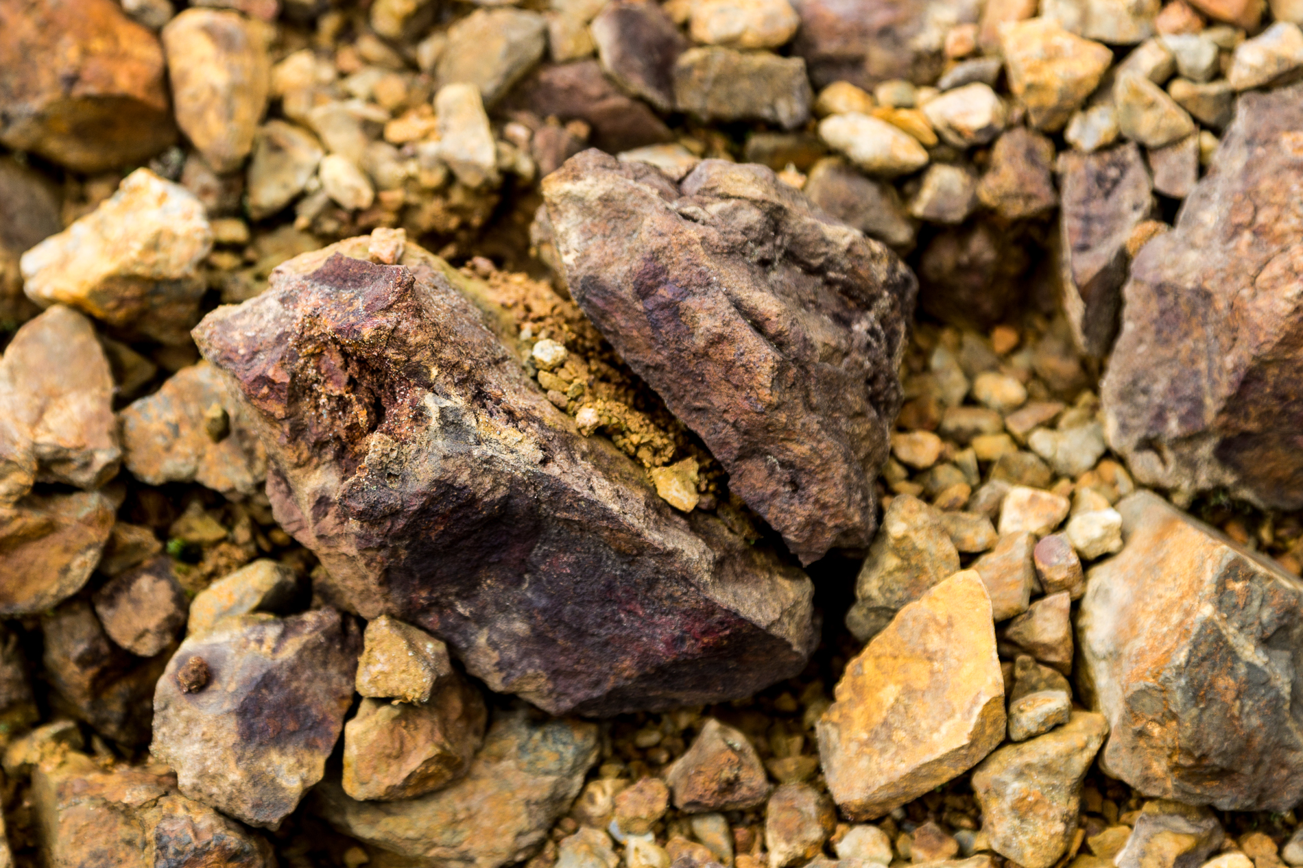 Ranau, Sabah: Mamut Copper Mine, typical crushed rocks along the former working sites